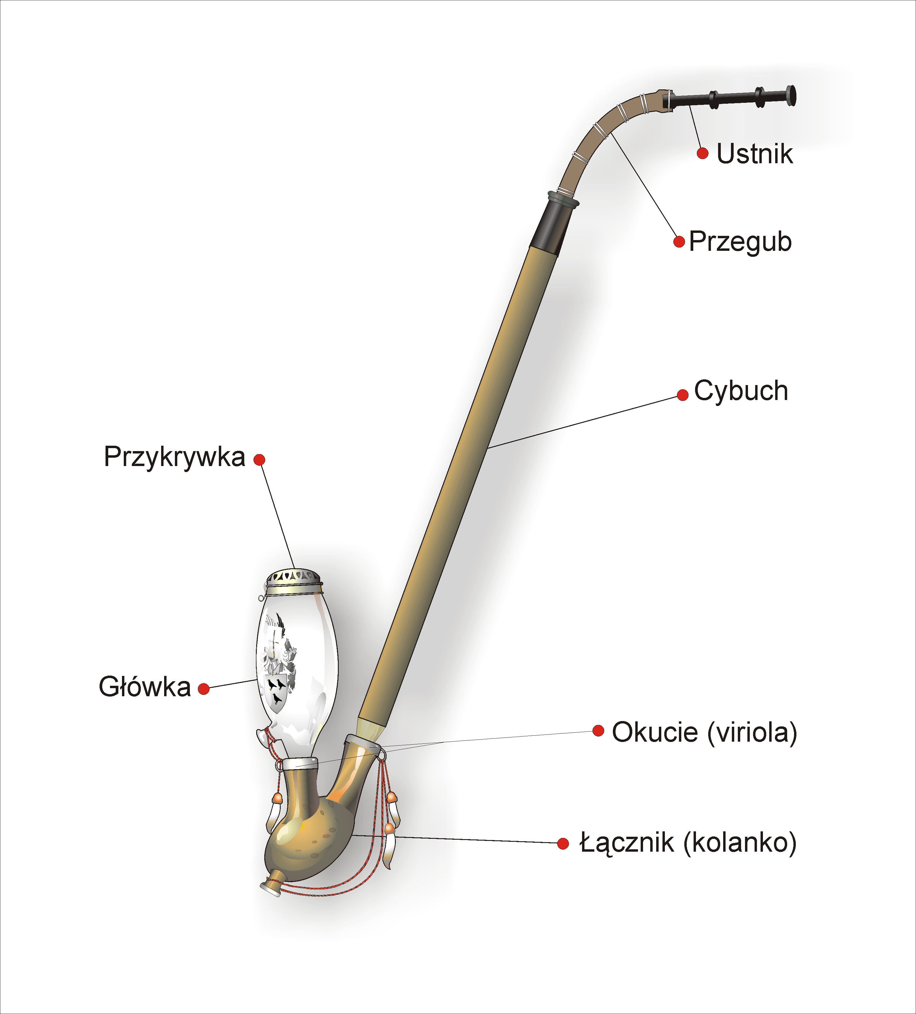 smoking pipe - construction / budowa fajki